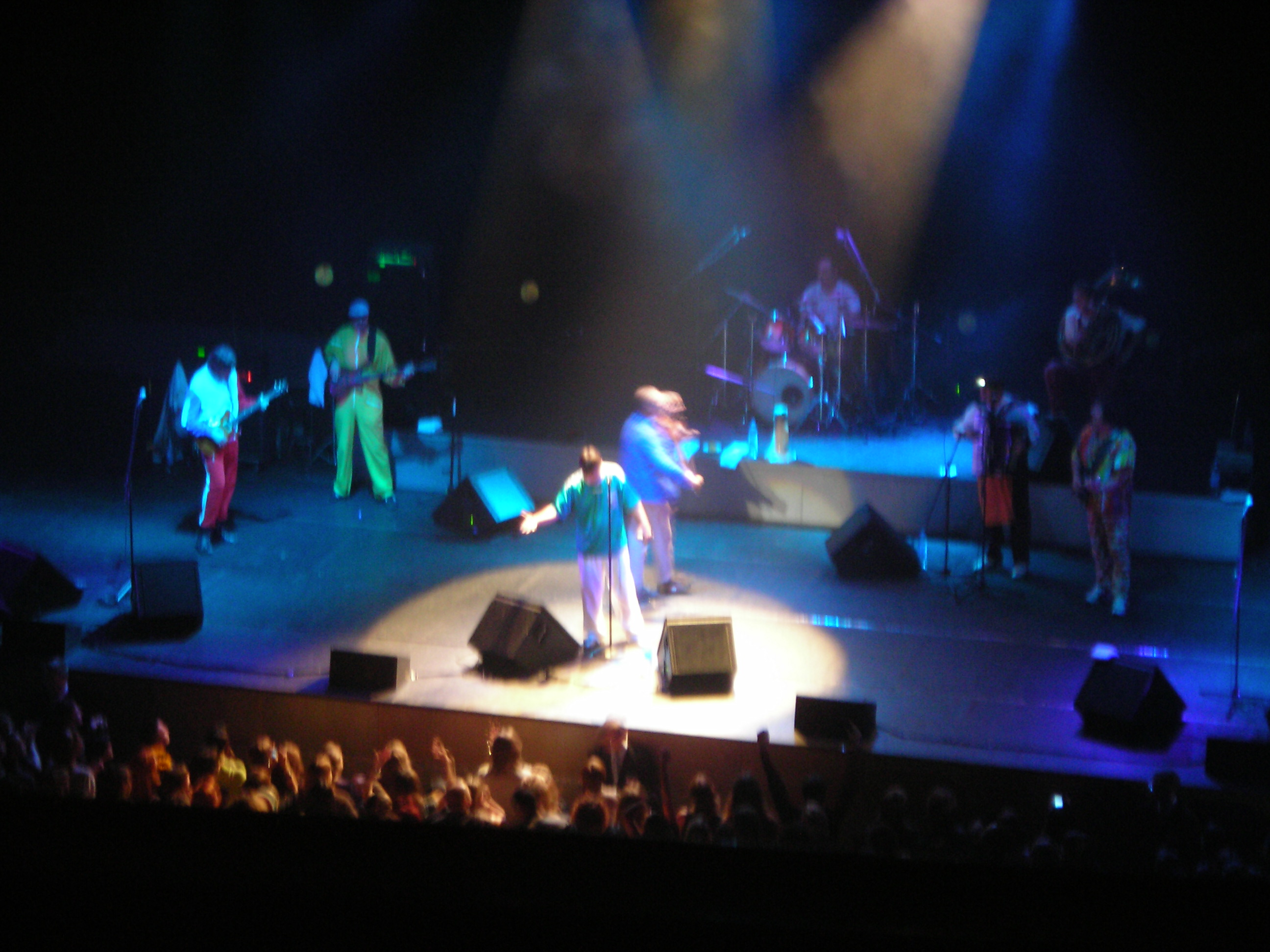 The No Smoking Orchestra at concert in BKZ Otkyabrskiy, St. Petersburg, Russia. Left to right: Emir Kusturica (solo guitar), Glava Markovski (bass guitar), Nelle Karajlic (vocal), Dejan Sparavolo (viloin), Srdan ... (percussion, replaces Stribor Kusrturica), Zoki Milosevic (accordeon), Goran Popovic (tuba), Ivica Maksimovic (guitar). Drazen Jankovic (keyboards) is standing left and is not seen on this photo.